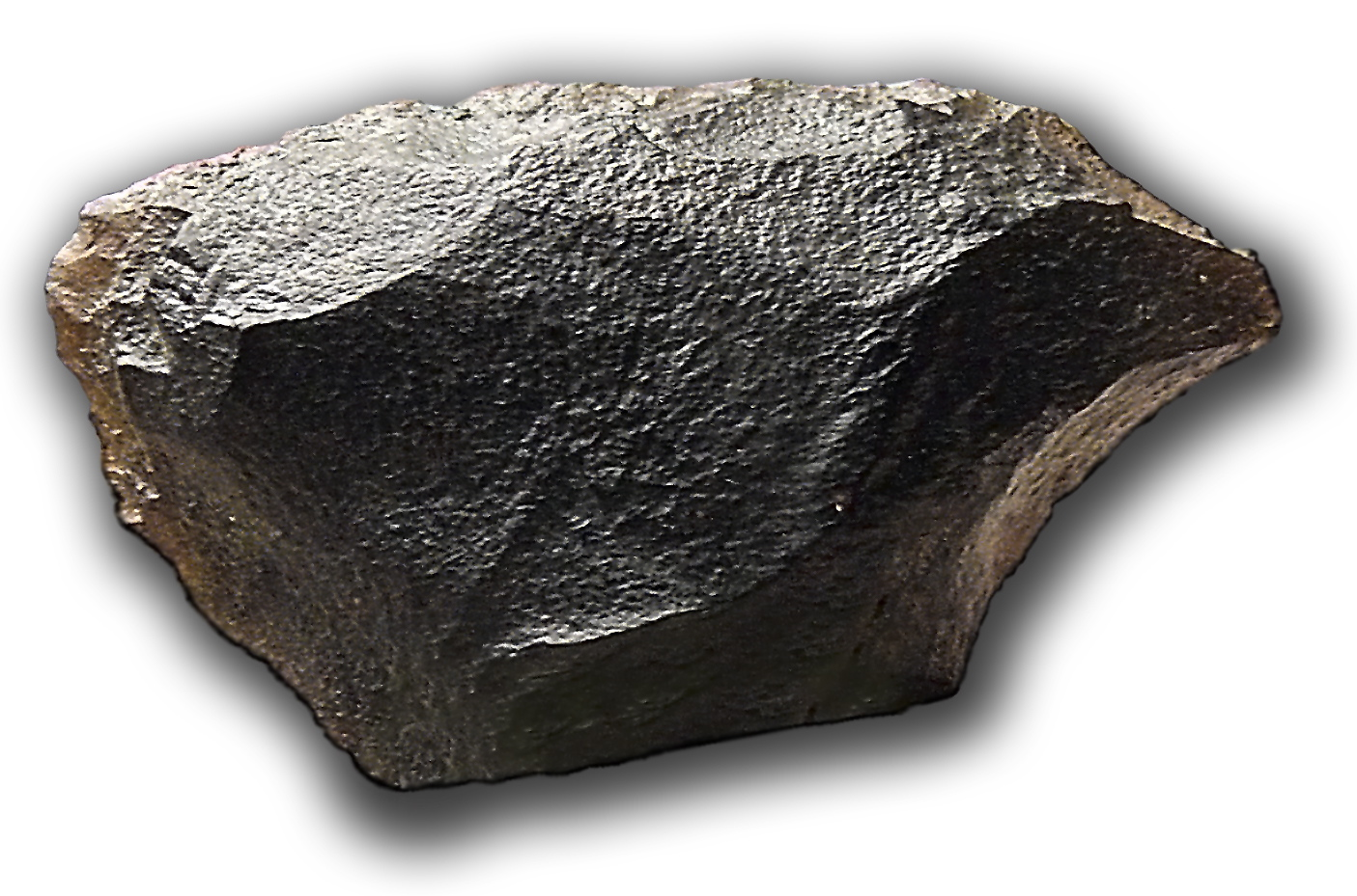 Racloir in quartzite, its comes from the bed TG-11 of « Galería» in Atapuerca (Burgos, Spain) and it is dated circa 300,000 years